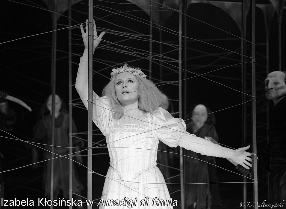 Amadigi di Gaula,TW-ON